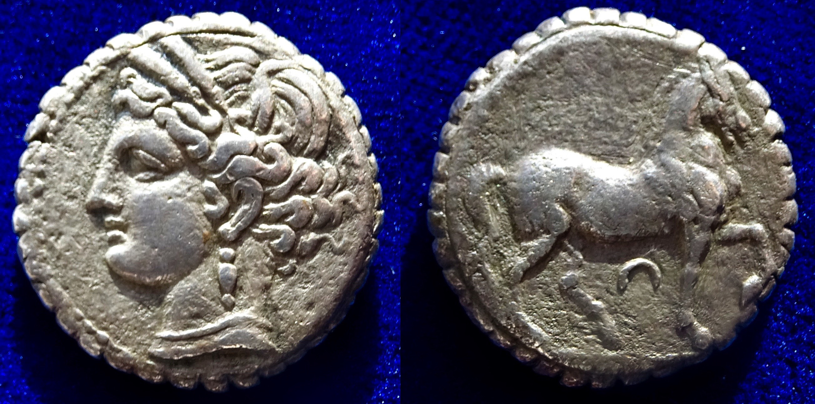 Carthage Tetradrachm Tanit & Horse, with a Serrated Edge. About 200 BC D. = 25 mm. 12.68 g Ag Head of Tanit l. wreathed with corn, wearing a necklace, and a single-drop ear ring./ Horse standing r., left foreleg raised. Beneath between the legs is a Punic letter. Sear 6501.